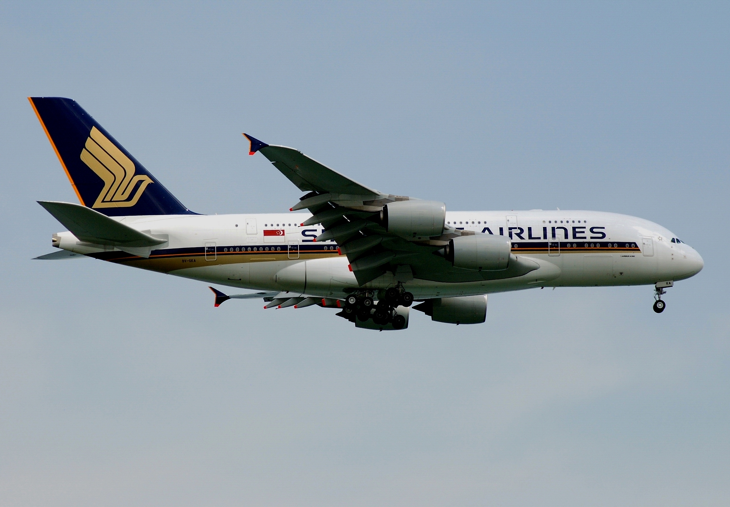 Singapore Airlines (SIA/SQ) Airbus A380 (9V-SKA) landing on 20C at Singapore Changi Airport. Taken with a Nikon D80 and AF 70-300 f/4-5.6G lens.